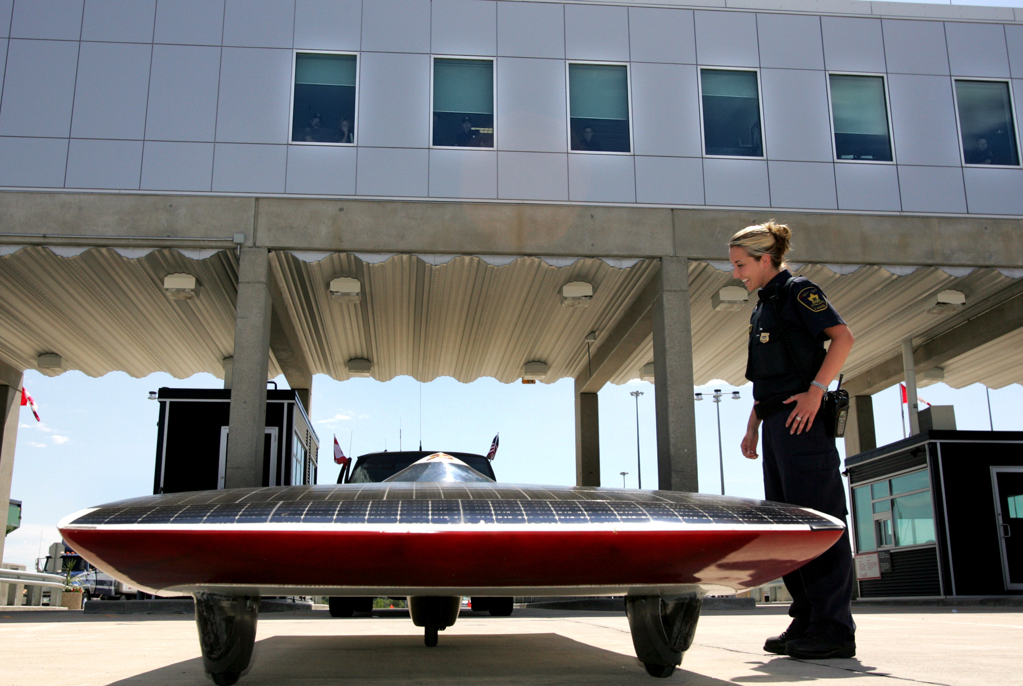 Image from Stefano Paltera, the NASC's official photographer Borealis III crosses the border to Canada on July 21, en:2005.